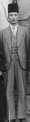 Ahmed Hilmi Pasha, Gen. Manager of the Jerusalem Arab Bank, 1936.